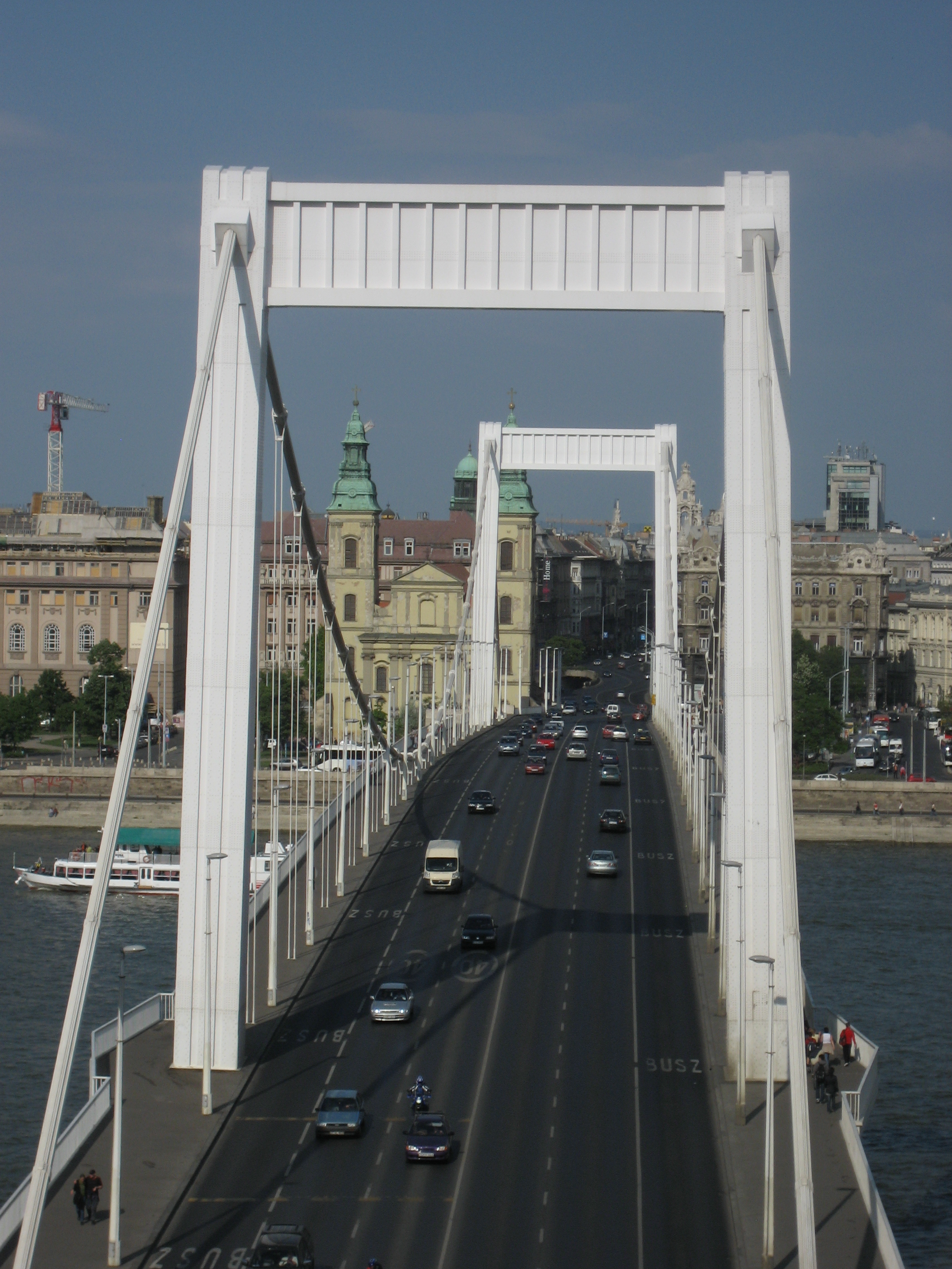 Erzsébet híd (Elisabeth bridge) in Budapest, Hungary